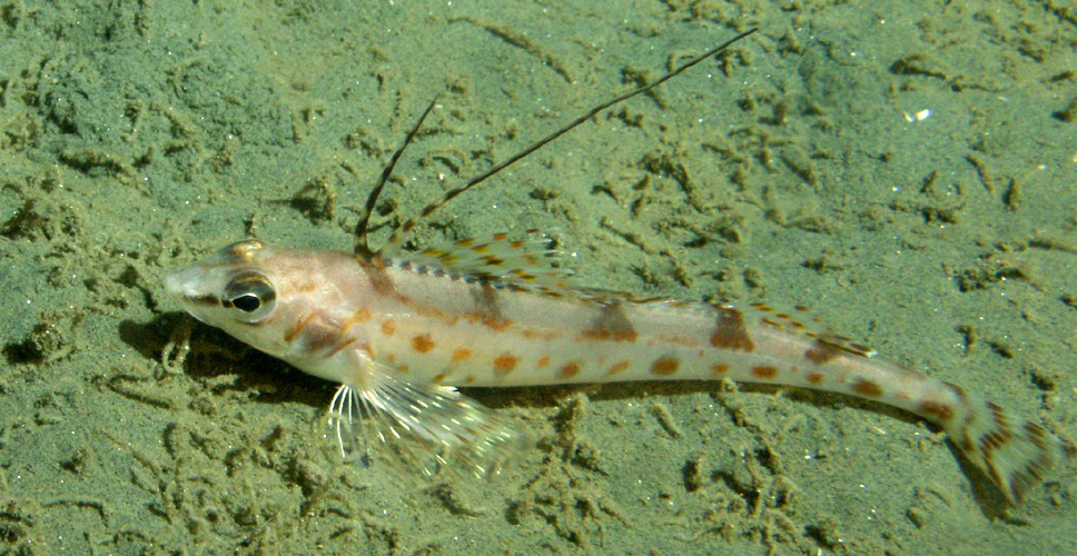 Longspine combfish (Zaniolepis latipinnis) observed off Pt Pinos during a sanctuary seafloor monitoring survey using the Delta submersible.